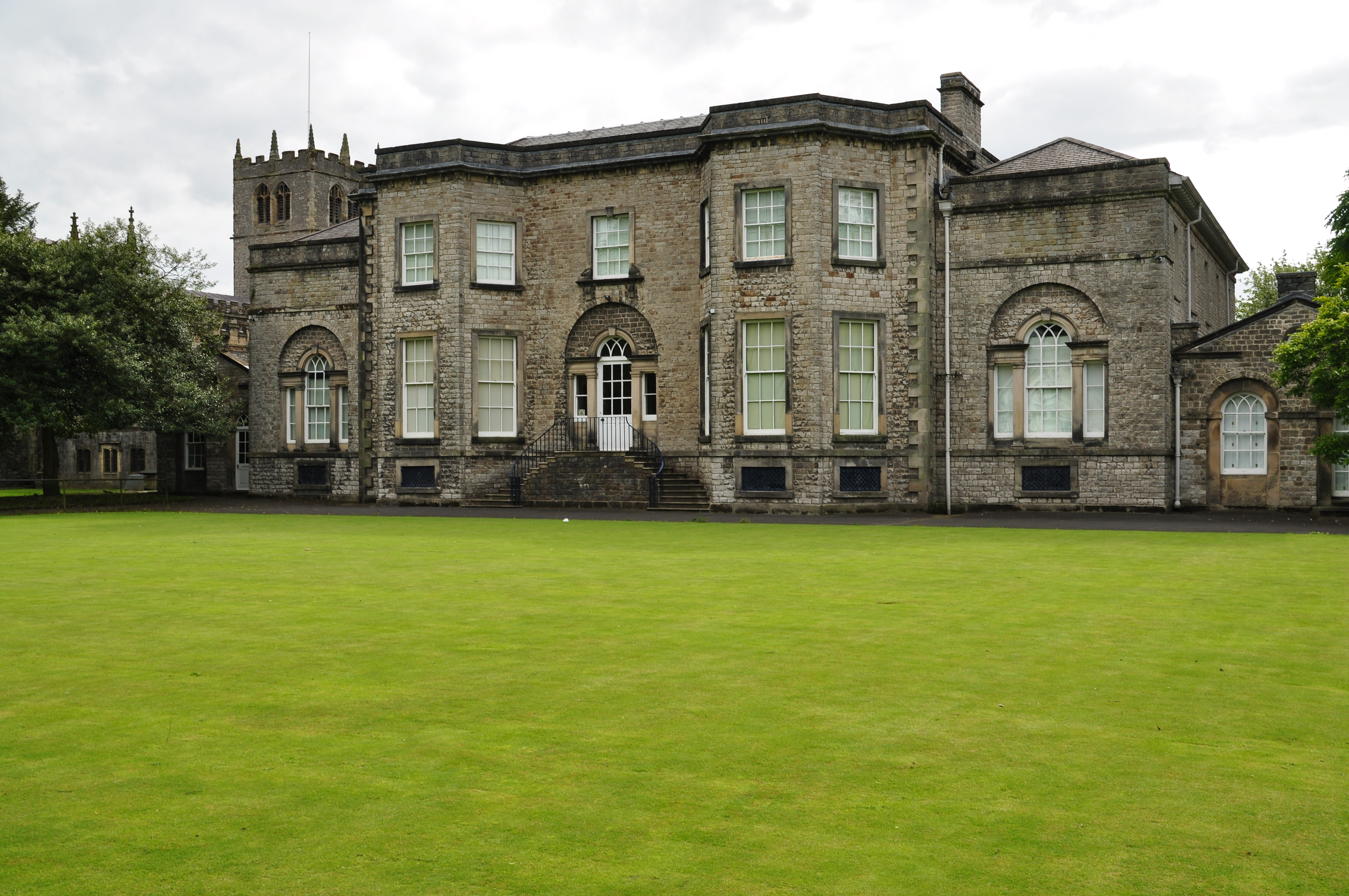 Abbot Hall Art Gallery, Kendal